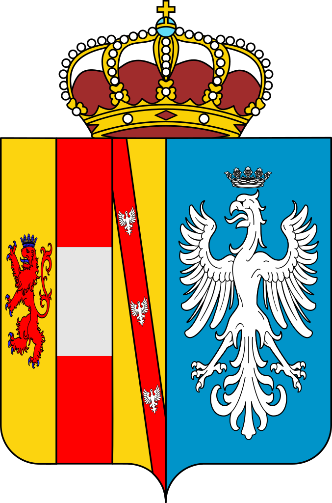 COA of the Duchy of Modena